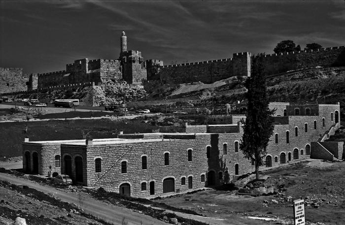 Jerusalem - artist's colony